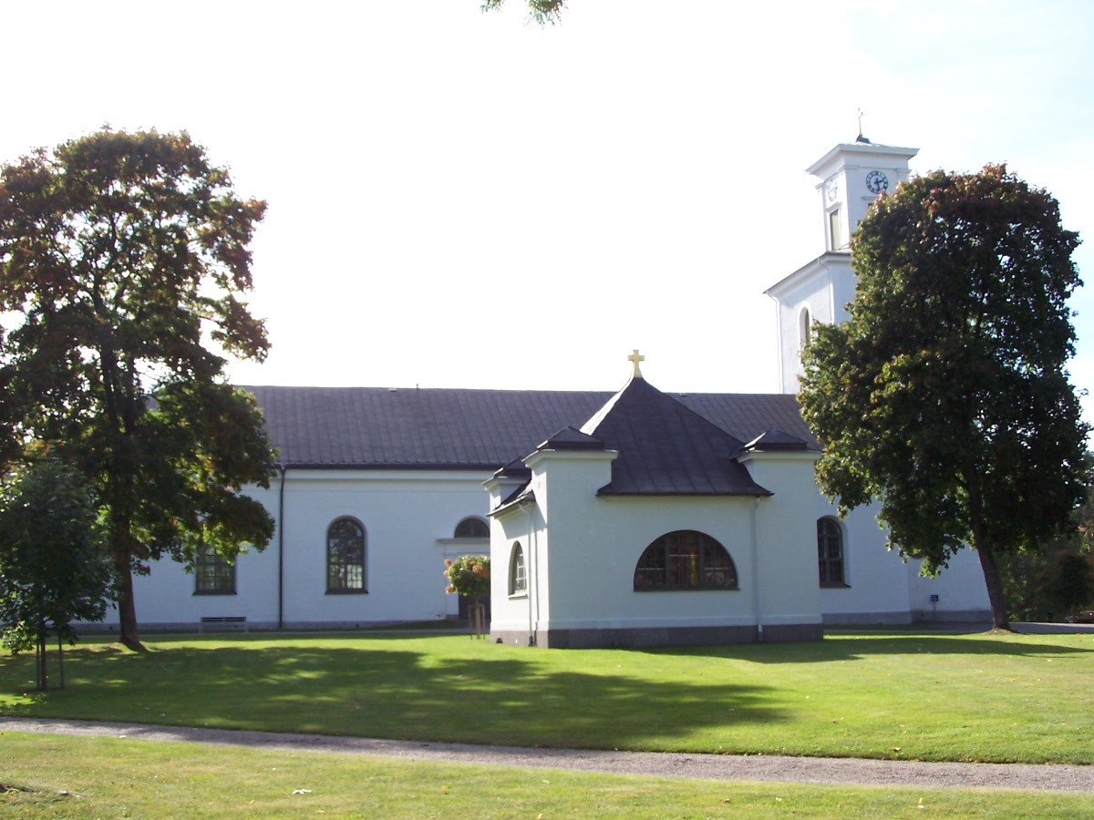 Gamleby church, Sweden